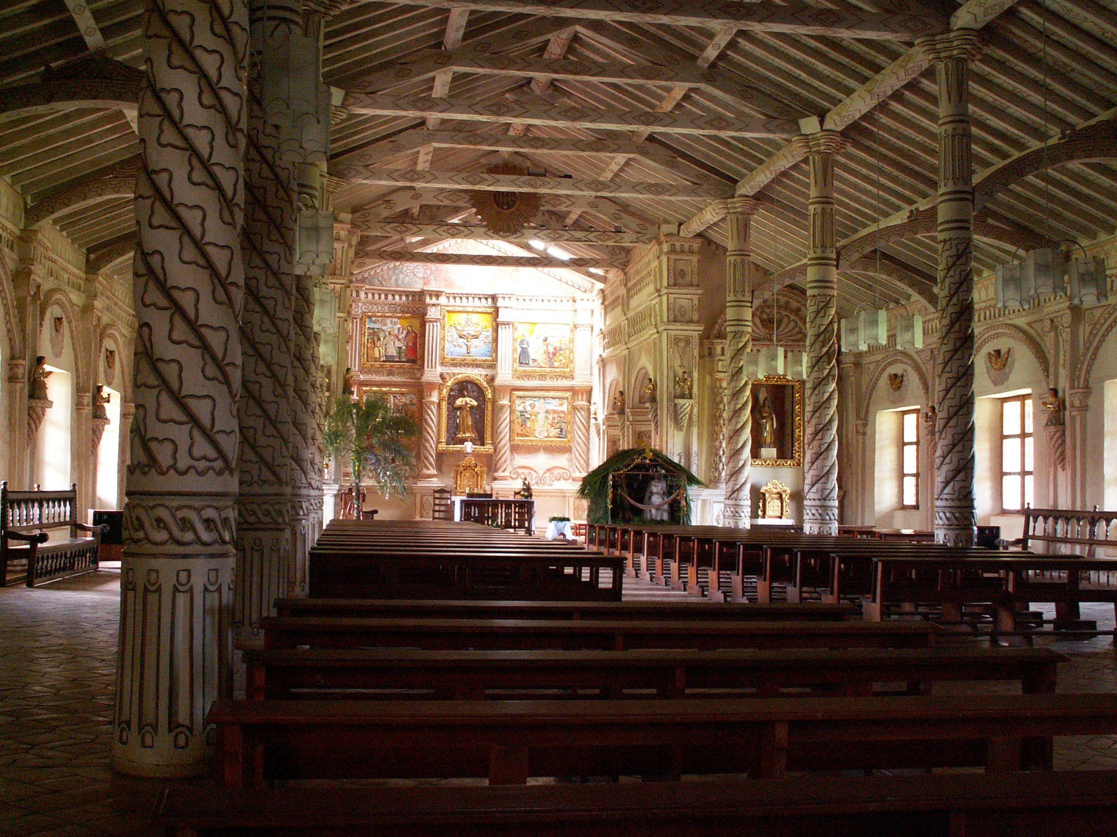 Image by Daan showing the church in San Javier, Santa Cruz, Bolivia. Part of the Jesuit Missions of the Chiquitos World Heritage Site.